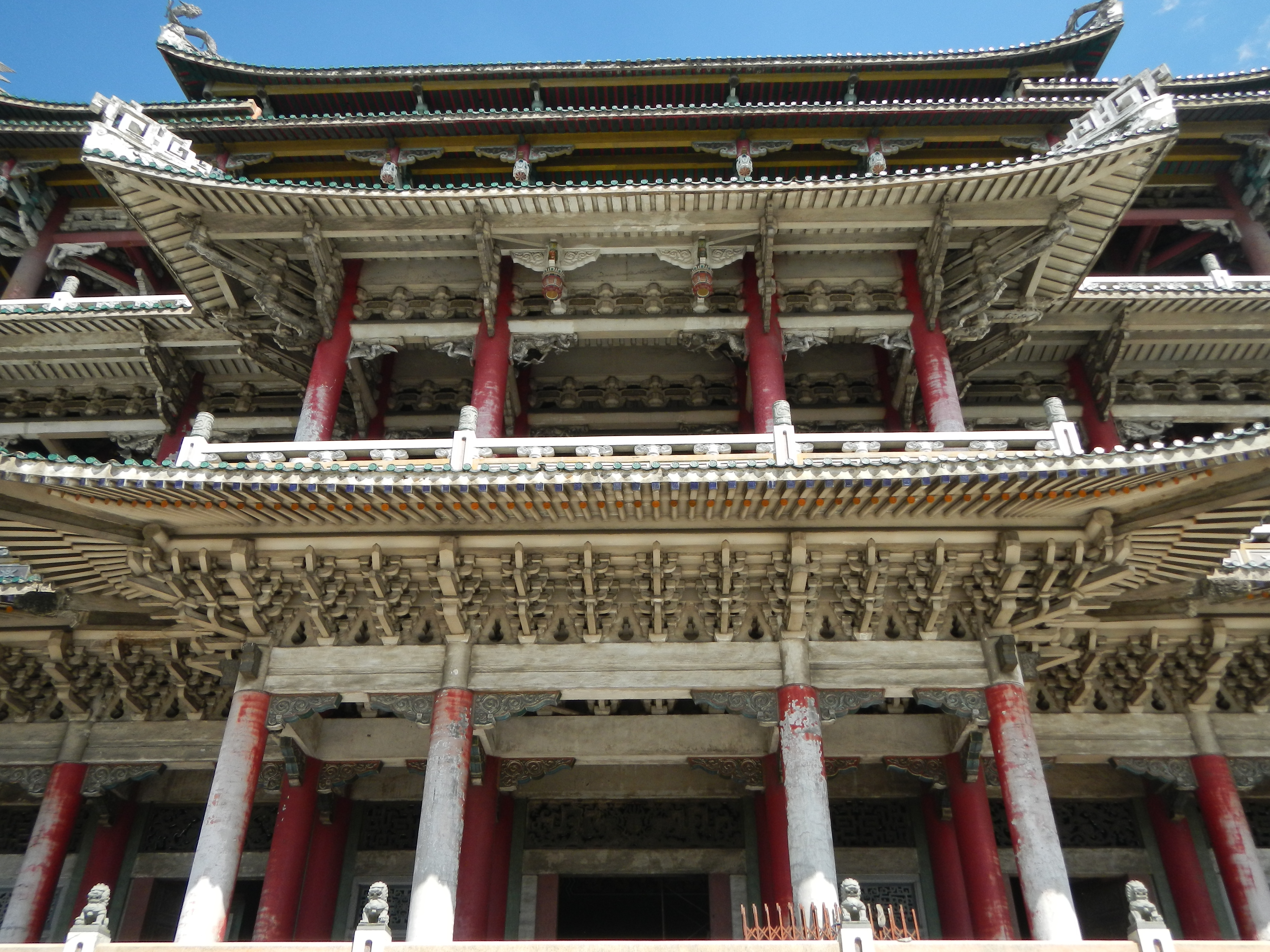 Upload Wizard photos of - Cavite City[1] Cultural Heritage Monument of - a) Julián Felipe[2] Monument and Statue, along Cavite City National Highway near the San Sebastian College–Recoletos de Cavite - under Rev. Fr. Cristituto A. Palomar, OAR [3] - Cavite City[4], and quite near these is the b) June 12, 2009 Barangay 2, Cavite City Heroes Arch 2009, beside the Aloha Drive Inn hotel, Cavite City Dialysis and Medical Center building, beside the Cavite beach, seashore facing Manila bay - Cavite City[5] and c) the Philippine Thai To Taoist Temple, Caloocan City [6] [7]No. 241 H. Del Pilar and 6th Avenue East, Coordinates: 14°38'43"N 120°59'4"E[8] Latitude: 14°38'43.3" Longitude: 120°59'5.64" is part of the List of religious buildings in Metro Manila[9] Taoism [10] - at 5th Avenue LRT Station[11] A century-old Taoist temple, a landmark built by the Chinese community in 5th Avenue LRT Station, Caloocan, Manila, Philippines - with commercial buildings around thereat.[12] [13] Metro Manila[14].